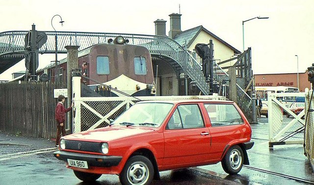 Level crossing, Coleraine station (3). See 1088502. The view across the level crossing, from the Bushmills Road side. The signals, gates and footbridge (and probably the Polo too) are now history 259926.